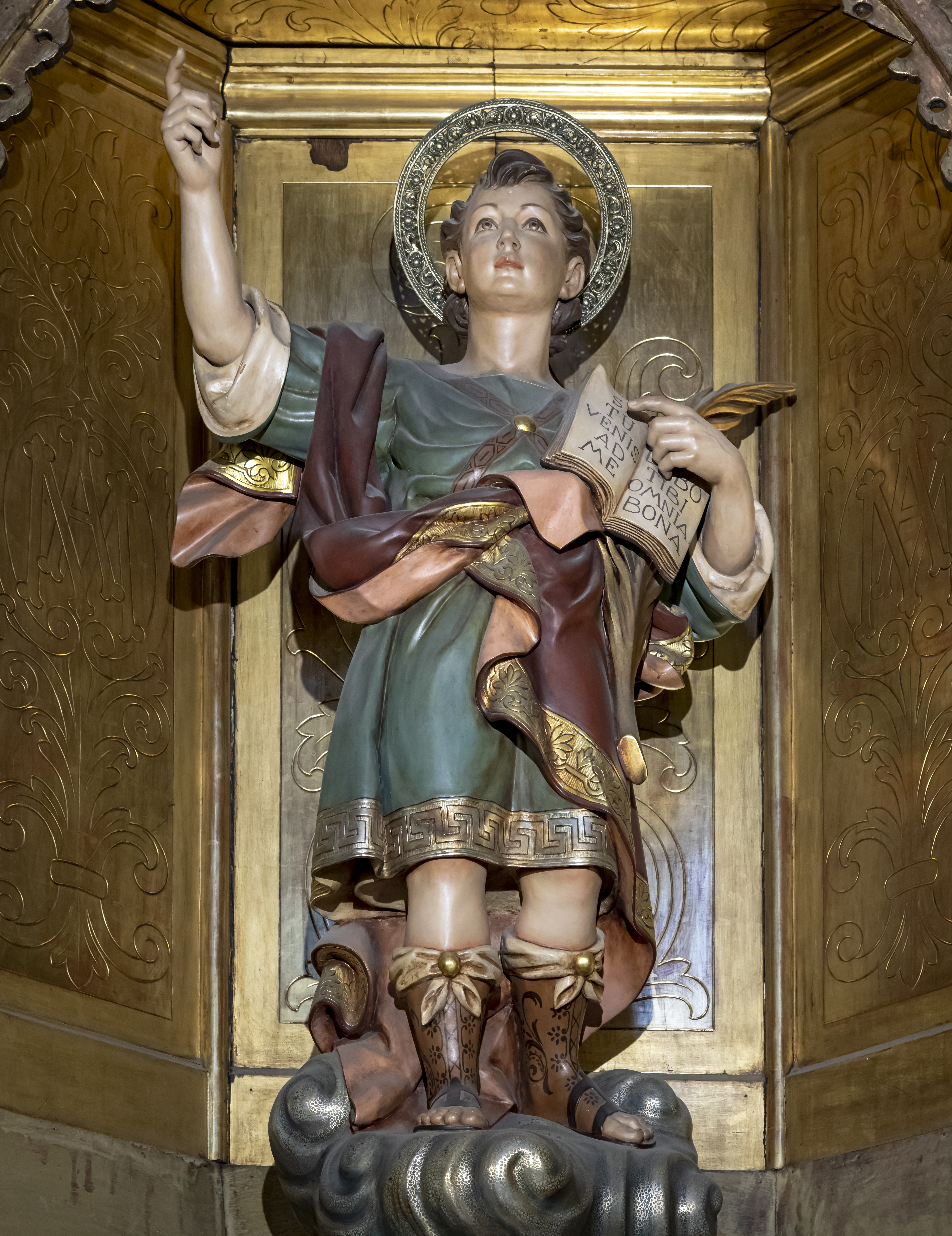 The Cathedral of the Holy Cross and Saint Eulalia in Barcelona. Chapel of Saints Pancrace of Rome and Roc de Montpellier. It has an 18th century baroque altarpiece with the images of the saints Roc de Montpellier and Pancrace of Rome.